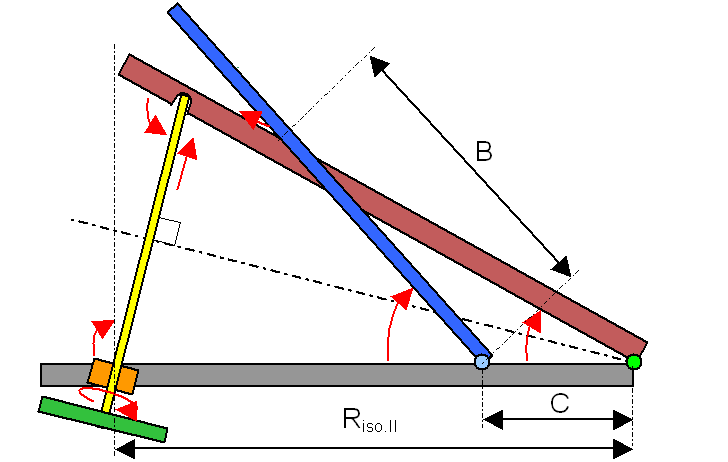 Double arm barn door (type 4 as designed by David Trott)